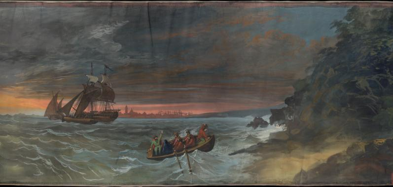 Scene 25 of the Garibaldi Panorama digitized by Brown University. Scene depicts Garibaldi and Anita escape to the shore of La Mesola as the Austrians capture eight out of twelve boats of the Garibaldian flotilla.